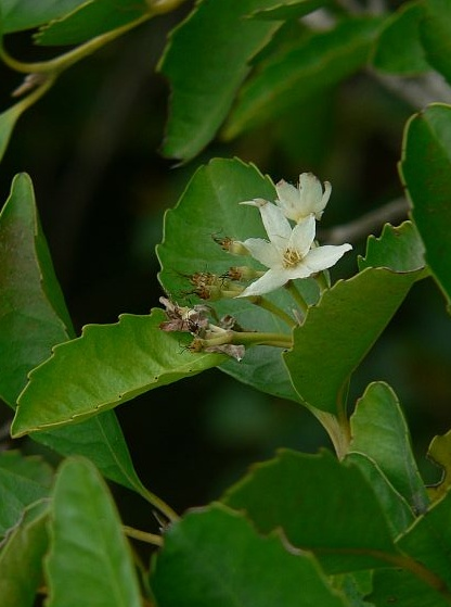 Doryphora sassafras is an Australian native evergreen tree.